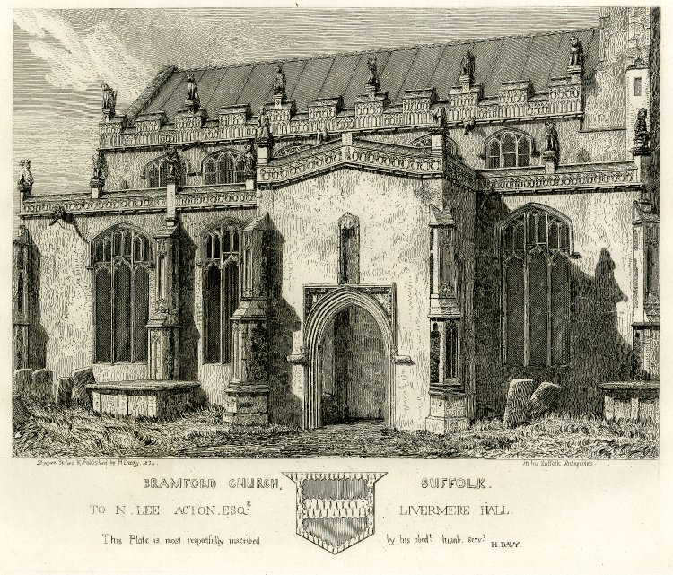 "Bramford Church, Suffolk," etching, by the British printmaker Henry Davy. 253 mm × 327 mm. Courtesy of the British Museum, London.